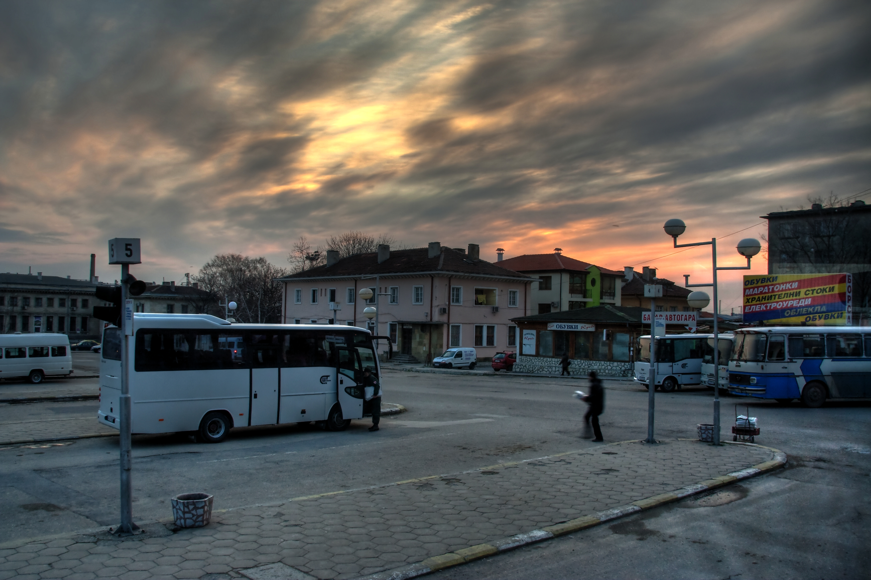 The main bus station in Shumen, Bulgaria, at the morning.